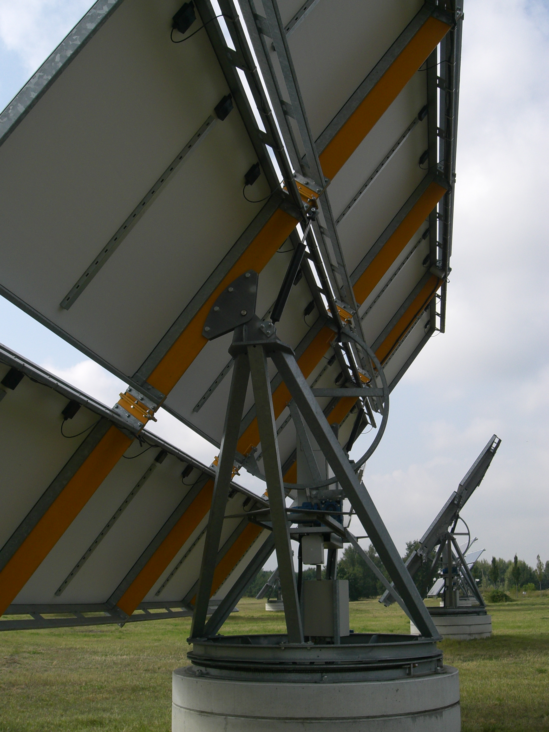 Photovoltaic power station in Adlershof, Berlin, Germany.